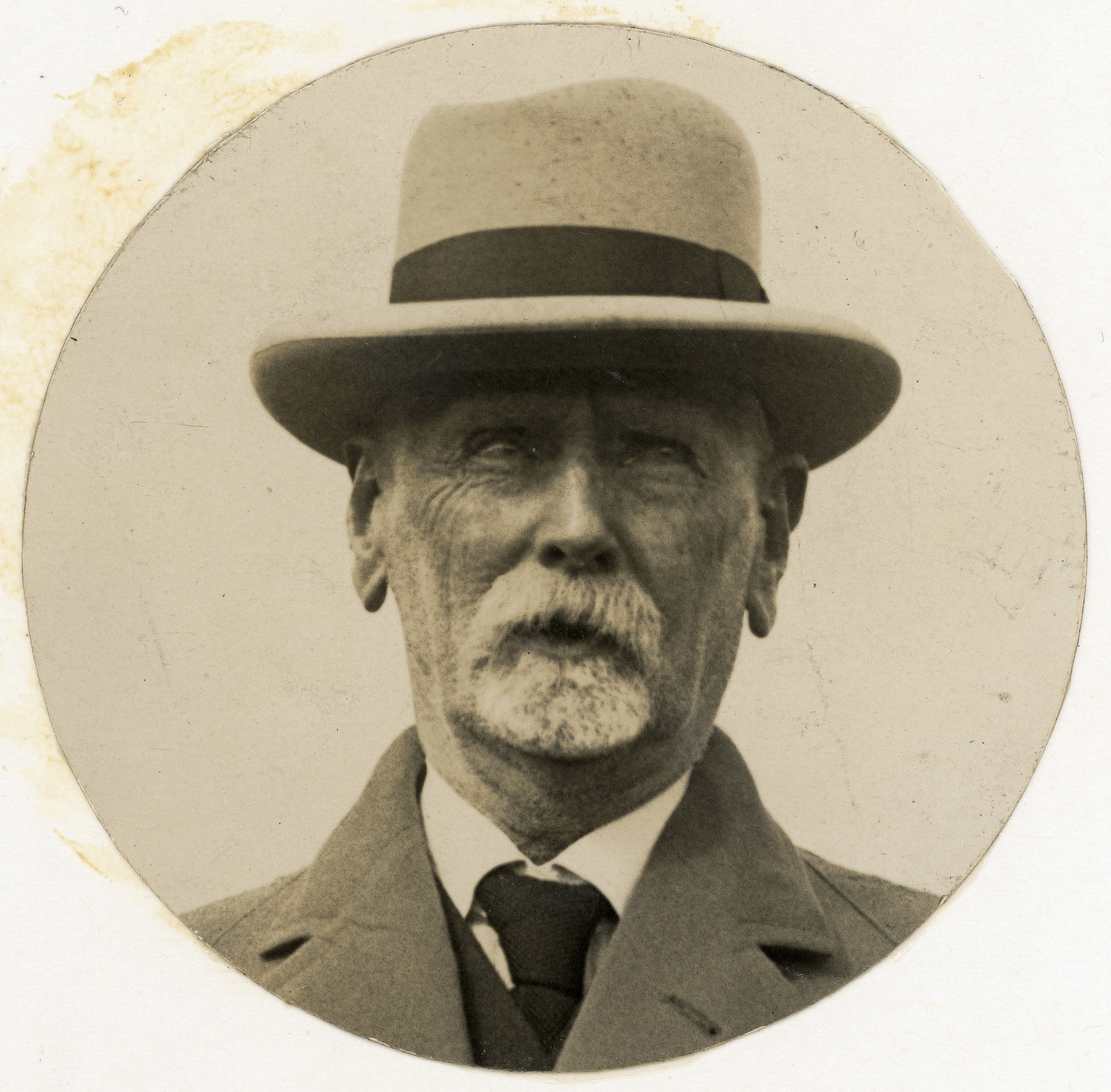 Dr Leonard Cockayne, 10 October, 1926. Location, and photographer unidentified.